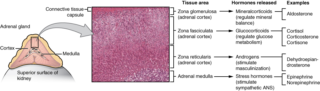 "Both adrenal glands sit atop the kidneys and are composed of an outer cortex and an inner medulla, all surrounded by a connective tissue capsule. The cortex can be subdivided into additional zones, all of which produce different types of hormones. LM × 204." Illustration from Anatomy & Physiology, Connexions Web site. Jun 19, 2013.